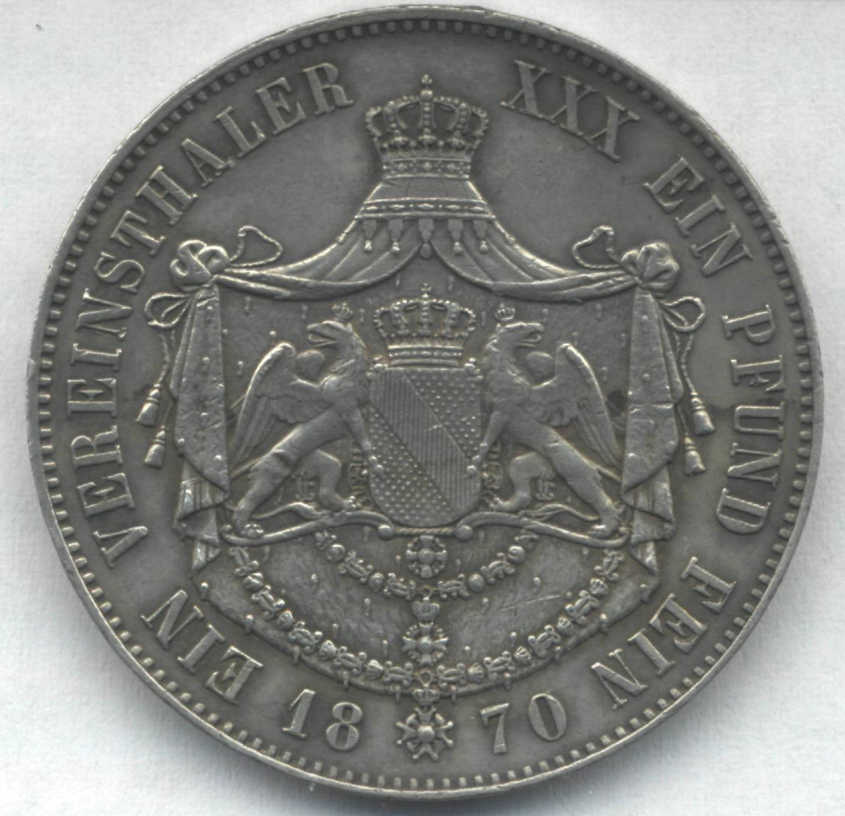 Obverse of taler of Baden 1870. Coin from my collection. Scan was made by me personally